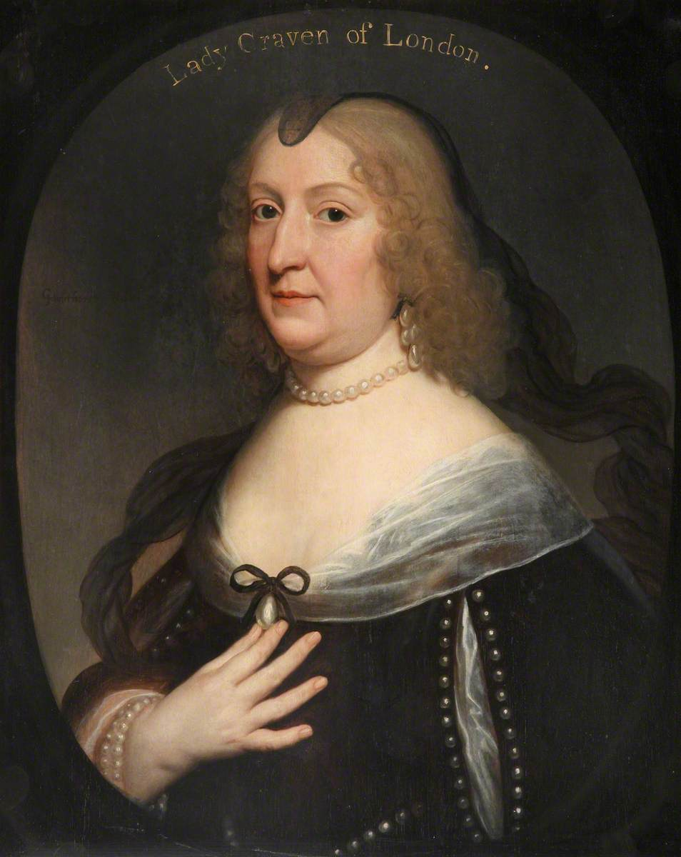 van Honthorst, Gerrit; Amalie Elisabeth von Hanau-Munzenberg (1602-1651)